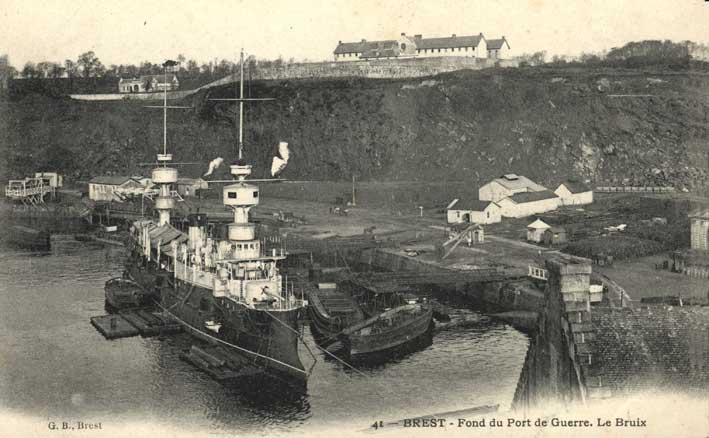 A postcard of the French armored cruiser Bruix in drydock at Brest, before 1914